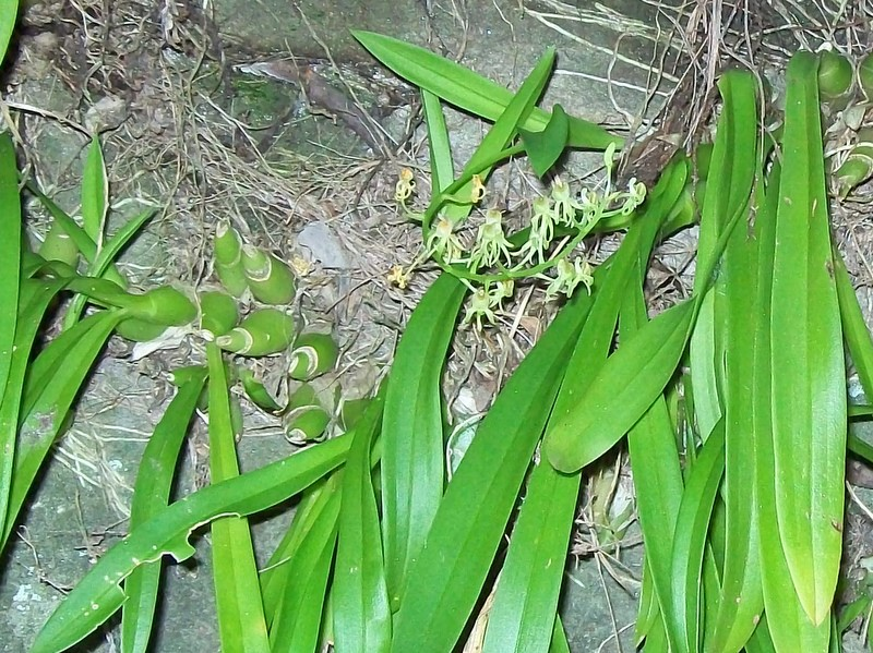 orchid in a rainforest, Ku-Ring-Gai Chase National Park. Orchid is identified as Liparis reflexa, otherwise known as Cestichis reflexa. Rock is probably Hawkesbury Sandstone (is right on the border of Narrabeen Sandstone and Hawkesbury sandstone)